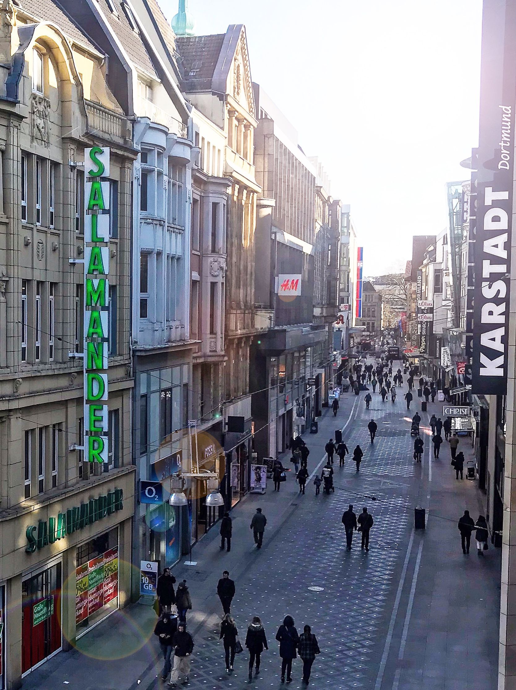 Shoppingstreet